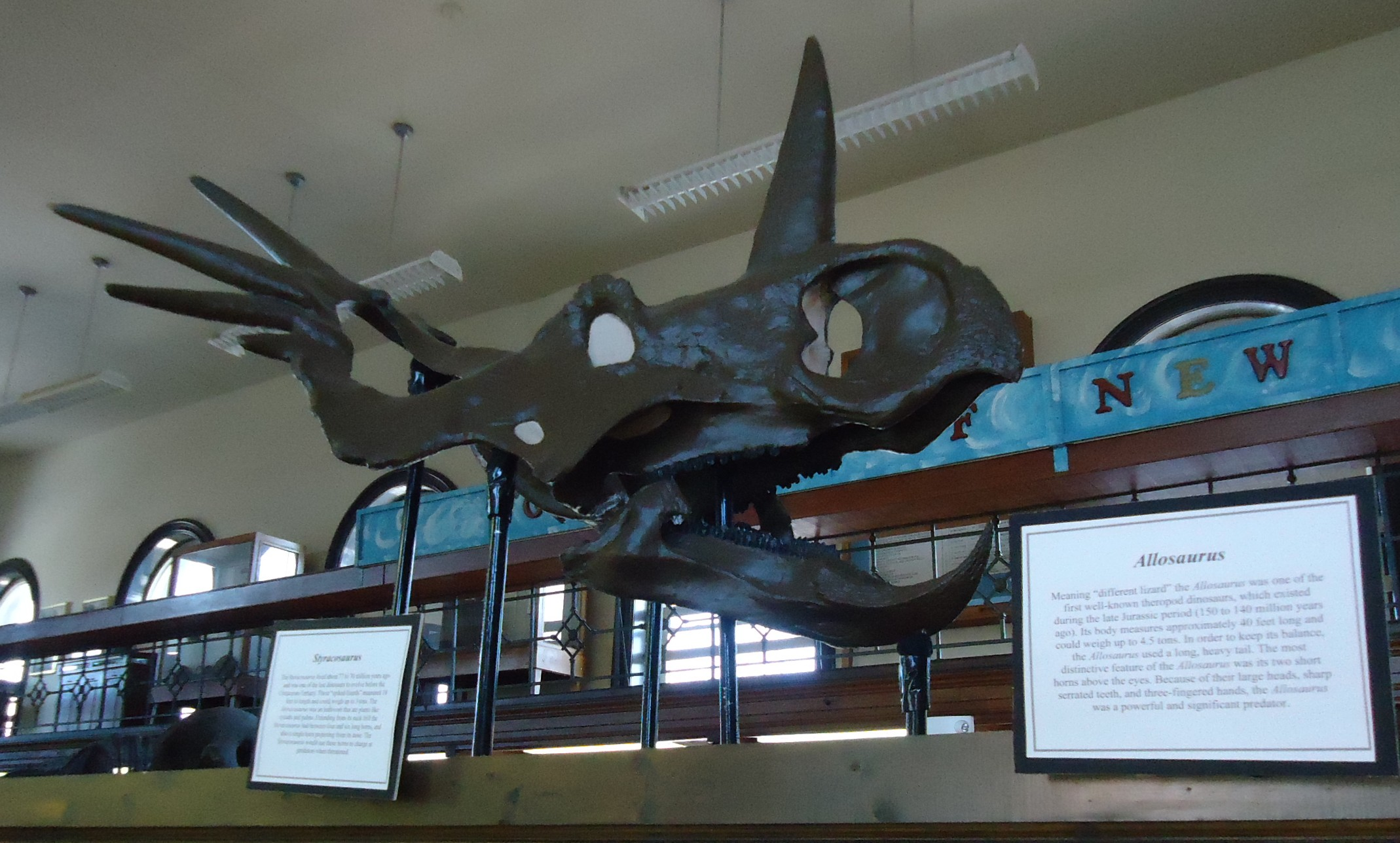 A model of the head of a Styracosaurus dinosaur, on display at the Geology museum at Rutgers University in New Brunswick, New Jersey.